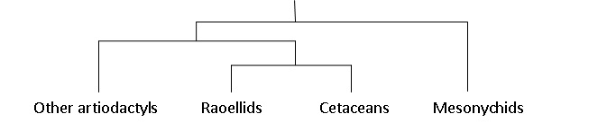 A diagram showing relationship between raoellids and cetaceans.